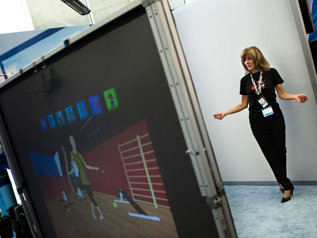 Bringing mirror-like augmented reality to the shopping experience will require realistic clothing simulation that allows people to see how new clothes might fit and move on their body according to Intel Labs researcher Nola Donato. See more: Can Augmented Reality Change How You Shop for Clothes? Personal avatars, real-time clothing simulation and virtual closets could alter fashion retailing. Instead of stepping into a fitting room to try on new clothes, shoppers may soon activate an augmented reality body double on a retail kiosk or their personal device. Parents could carry around avatars of their children, making it easy to buy clothes that fit and match with other clothes already hanging in the closet at home. Experiments with so-called digital dressing room technology have been around for years, including the multimedia bathroom mirror from the New York Times Research and Development Lab and the Magic Mirror avatar experience developed by Intel Labs researcher Nola Donato. Recently, Nordstrom's CEO said technology innovations such as digital fitting rooms will change the way people shop for clothes. It's a trend that European retailers Tesco and Zalando are pushing ahead, as is Bodymetrics, which is using Microsoft Kinect technology to create full-body scanners to help Bloomingdale's shoppers find the perfect-fitting pair of jeans.